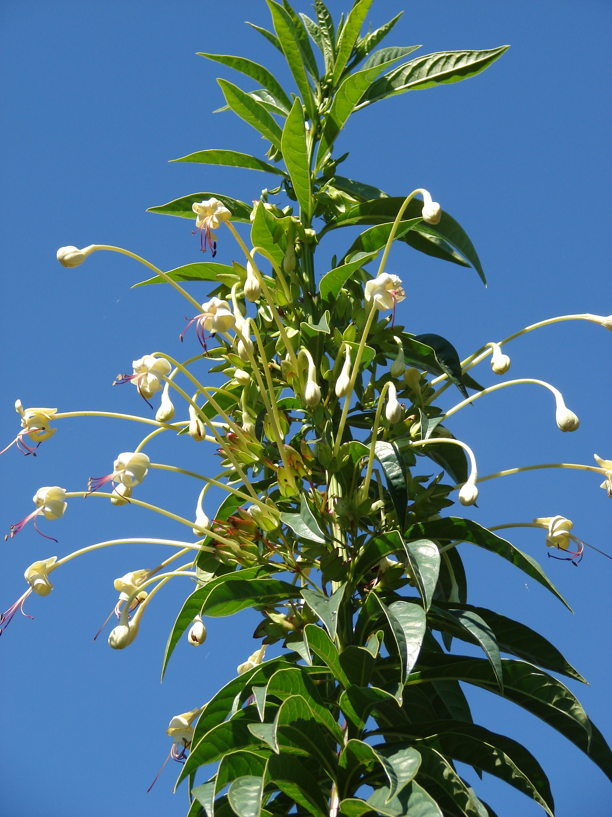 Clerodendrum indicum (flowers). Location: Maui, Enchanting Floral Gardens of Kula